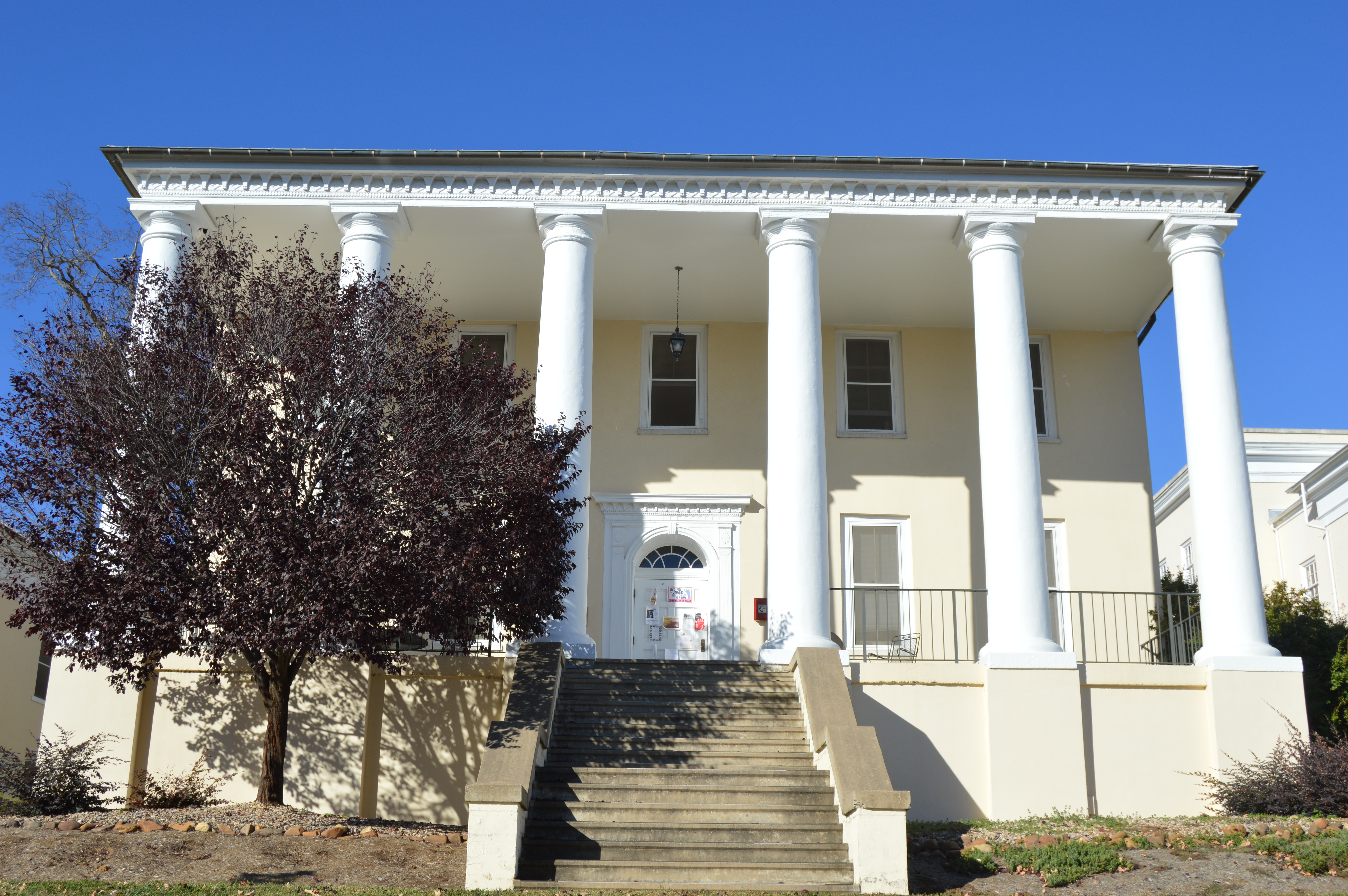 Front of Hilltop, located on the campus of Mary Baldwin University in Staunton, Virginia, United States. Built in 1810 as a residence, it has been listed on the National Register of Historic Places.